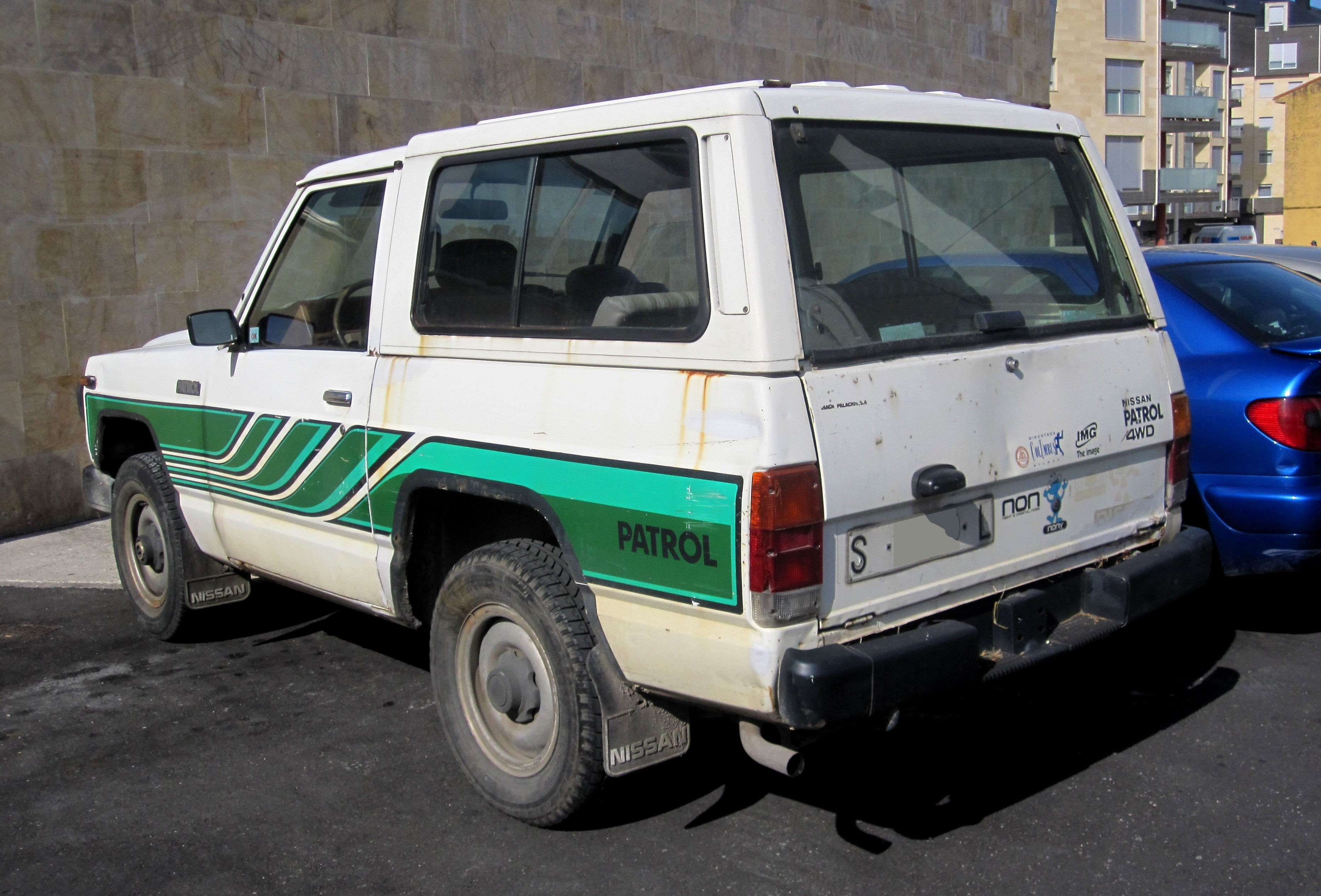 A very early one with round headlights. 1983 plate from Santander (Cantabria).